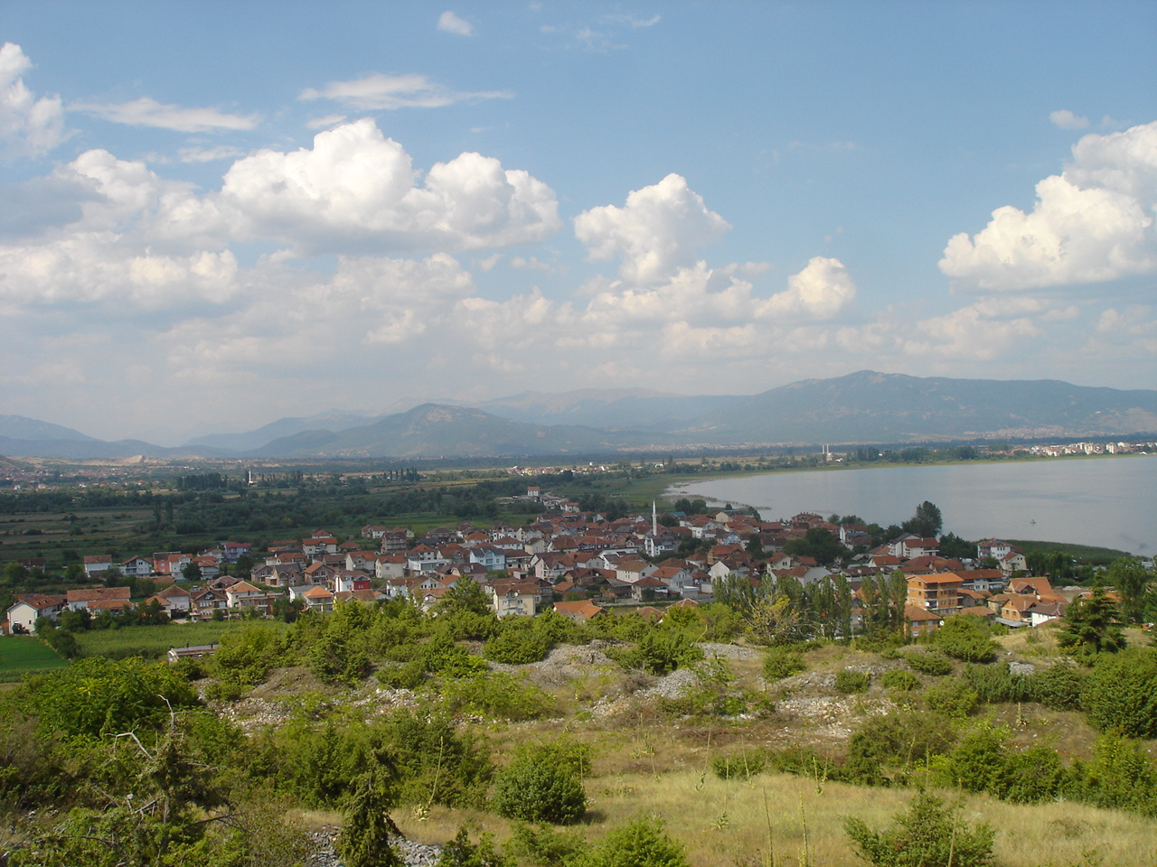 village of Kalishta, near Struga, Macedonia